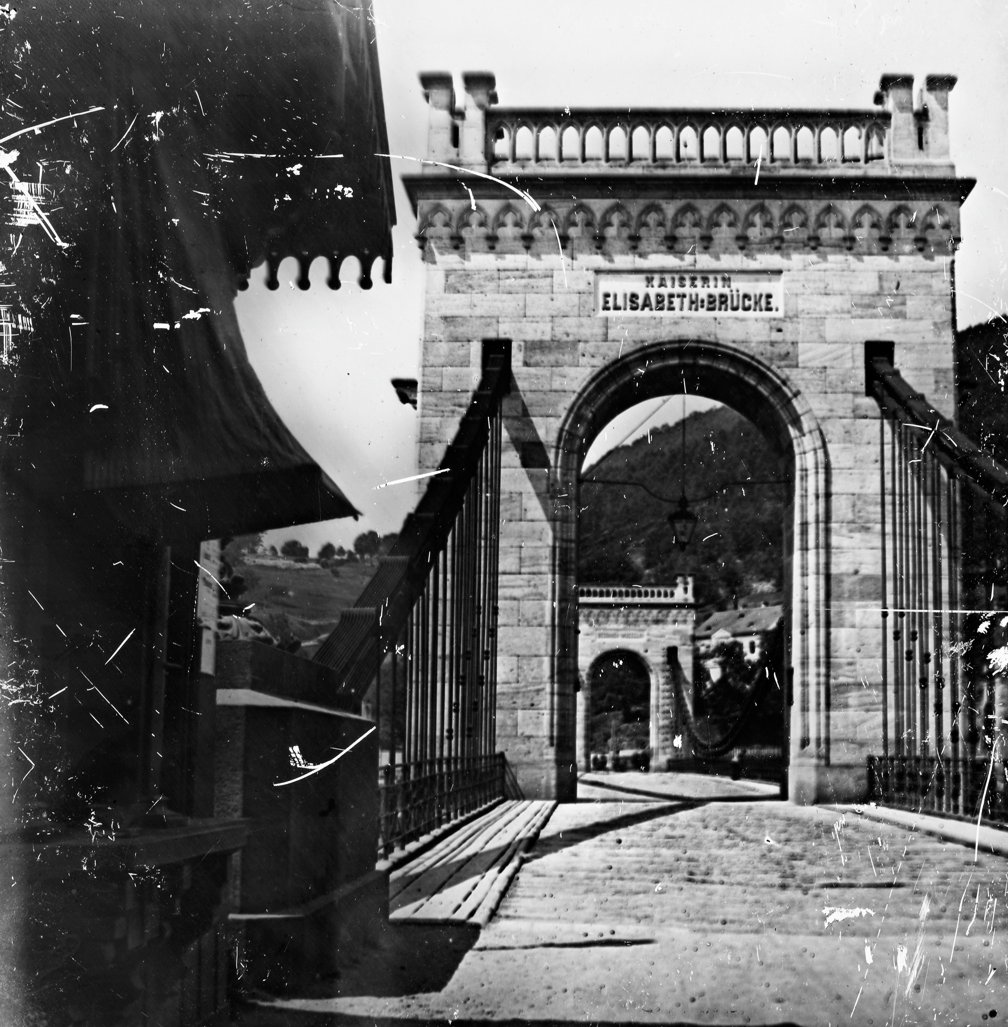 Thought we might venture a little farther afield than usual this morning. This is the Kaiserin Elizabeth Brücke in Děčín (Tetschen), Czech Republic. It's a lantern slide from our Joshua H. Hargrave Collection. Asked if you had the time, it'd be great to get an exact location for this one, plus any information about the bridge - when/why it was constructed, etc. So thanks to all commenters below, especially Michiel2005, who got us an exact location... Date: Circa 1890 (Uploader's note: The photographer died in 1924, per NLI Ref.: HAR162